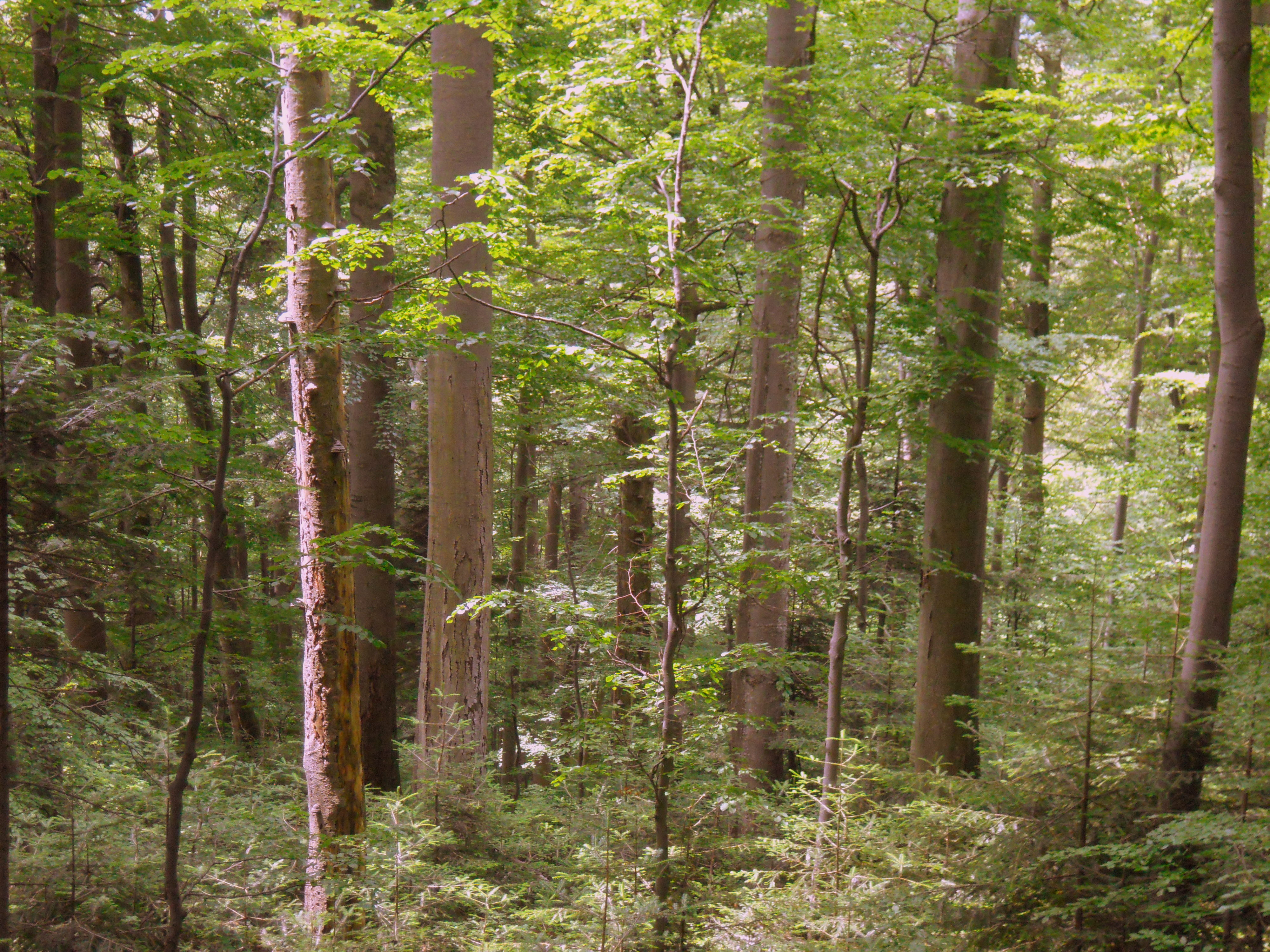 An area (Stuzica) of beech virgin forest within the Poloniny National Park (Eastern Slovakia)